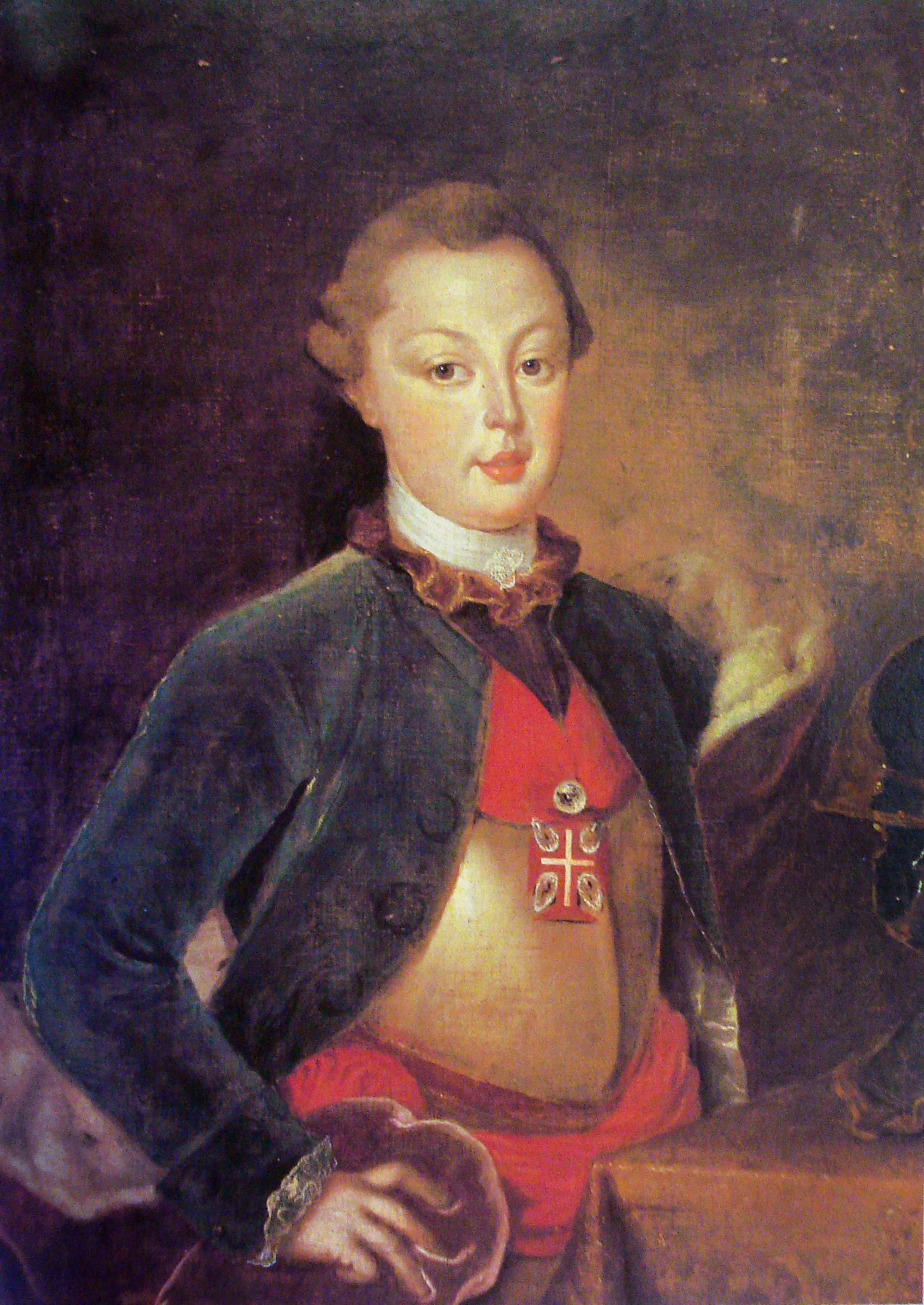 Portrait of John of Portugal (1767-1826)